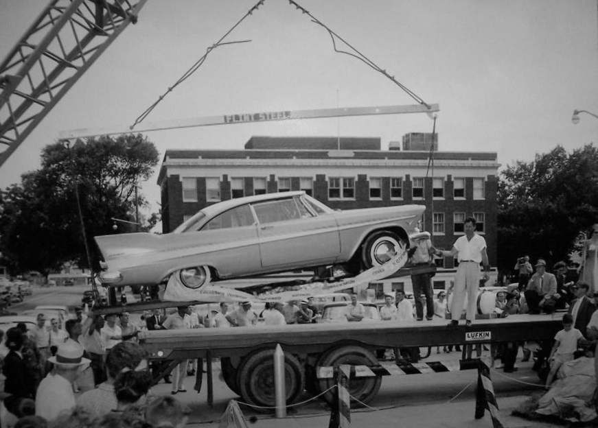 Picture of the famous car buried in Tulsa Oklahoma time capsule before it was buried.